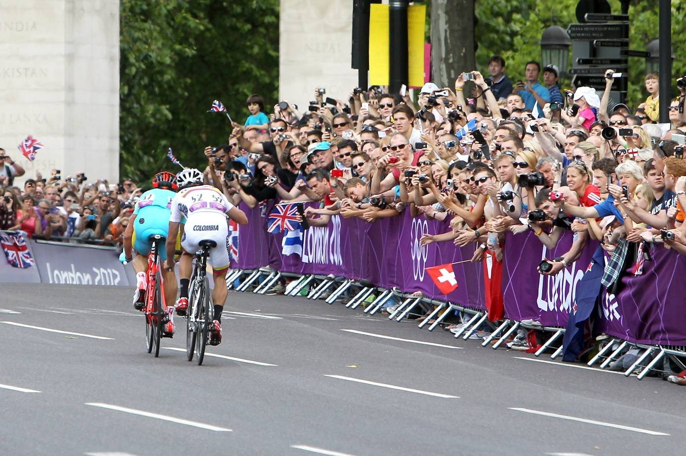 Eventual winner Alexandre Vinokourov heads Colombian Rigoberto Uran past massive crowds leading on to the Mall